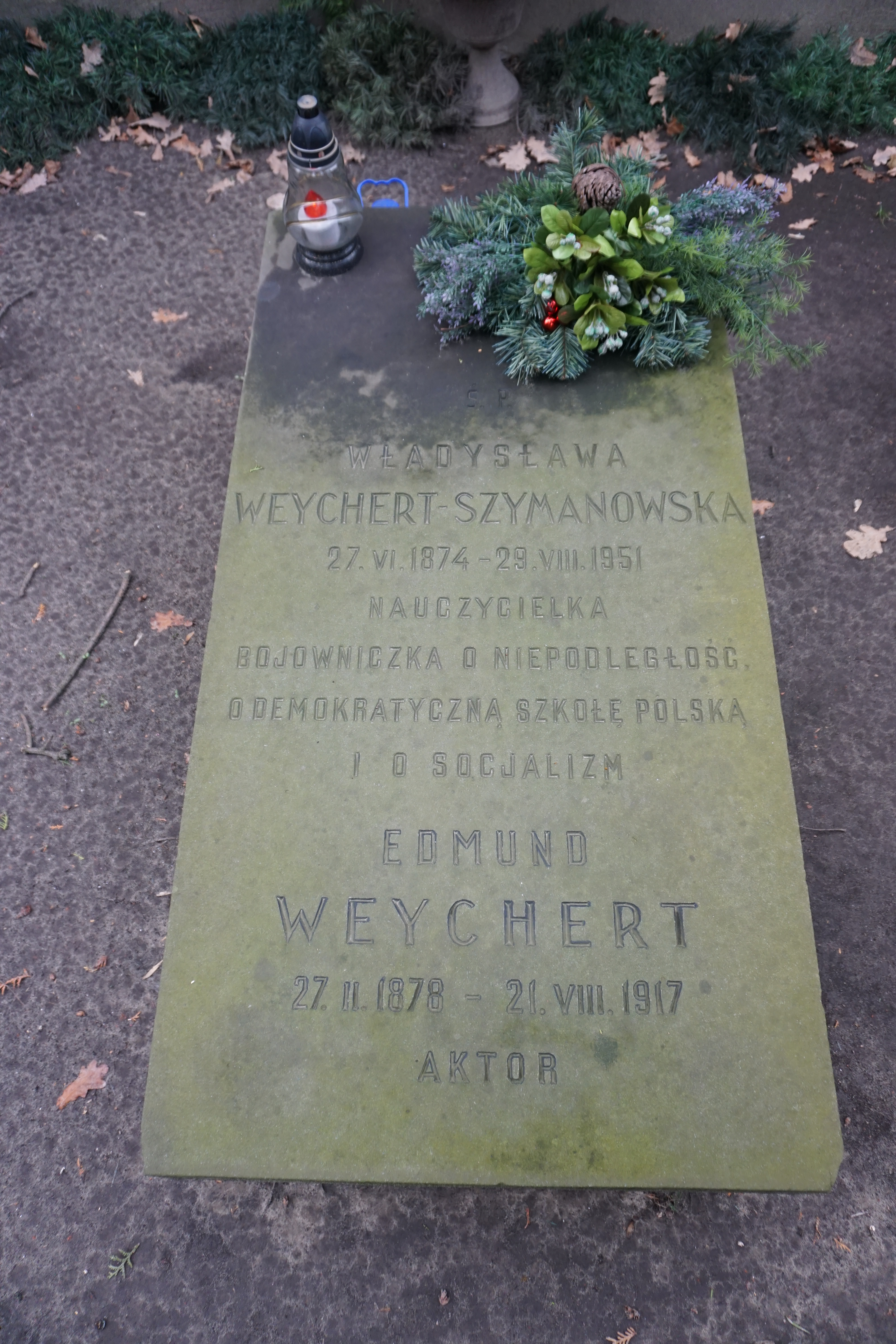 The grave of Władysława Weychert-Szymanowska at the Evangelical-Augsburg Cemetery in Warsaw (avenue 1, grave 35)